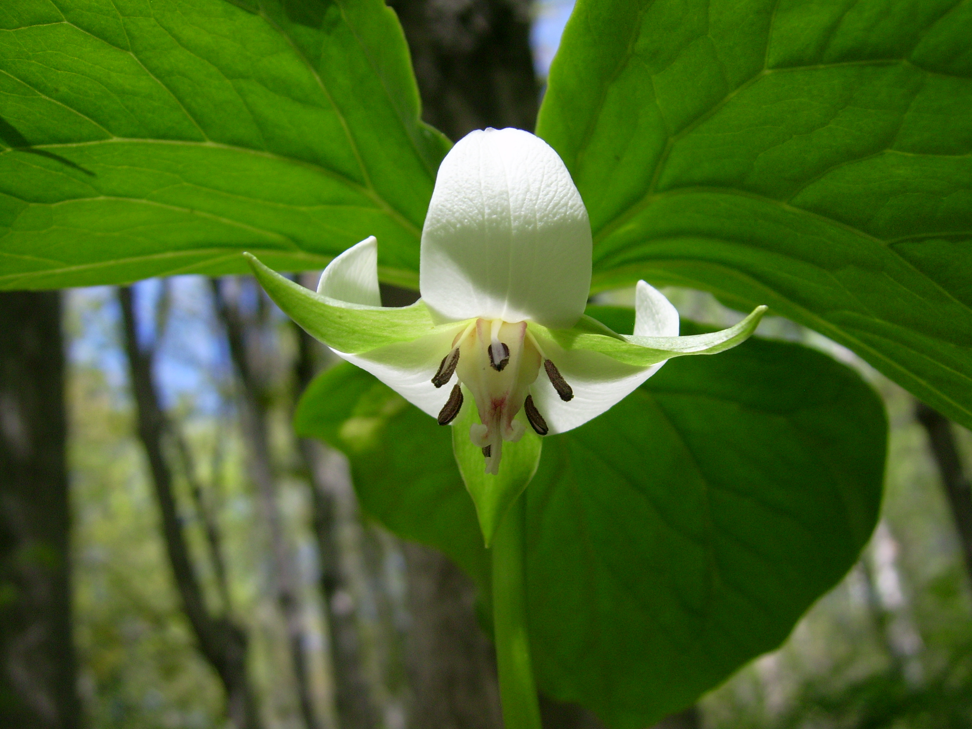 Nodding trillium (Trillium cernuum) flower Sault College woodlot, Sault Ste. Marie, Ontario, Canada